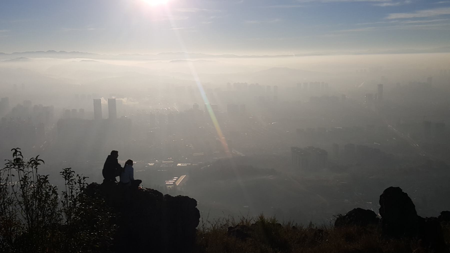 Taken from the peak of Changchongshan (长虫山), looking east-southeast, at dawn on 2016-11-22.